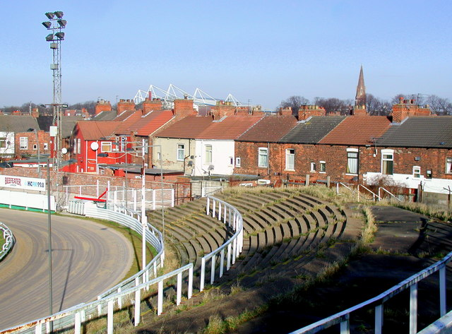 Boulevard Stadium, Hull, near to Kingston Upon Hull, Great Britain. Looking north towards the backs of houses on Carrington Street, which are due to be demolished between 2011 and 2014. The spire of St Matthew's Church is on the right. Boulevard Stadium was the home of Hull FC rugby league club for 107 years before they moved to the new KC Stadium in January 2003, the roof of which can be seen above the chimney pots. There were plans to demolish the Boulevard Stadium after the rugby club moved out but it has been kept open as a dog track operated by Hull Greyhounds.